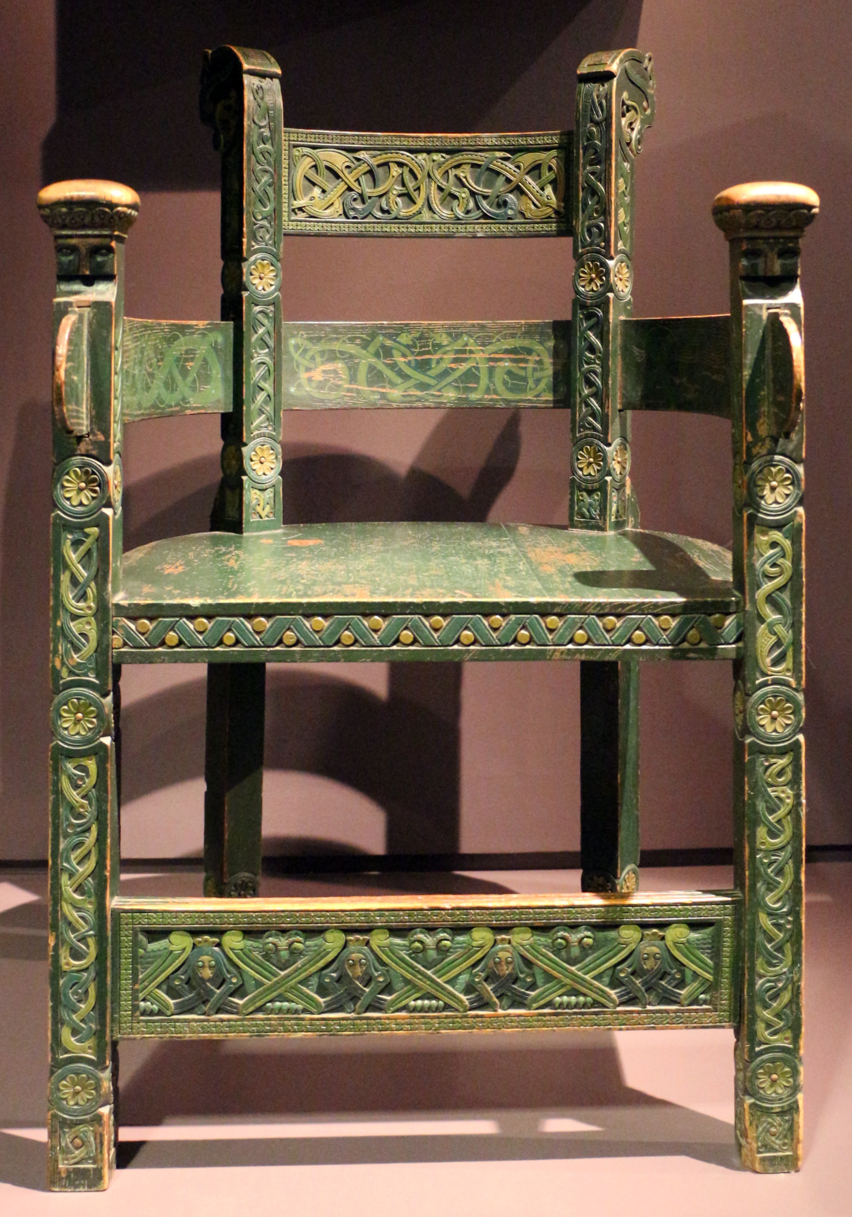 Decorative arts in the Musée d'Orsay